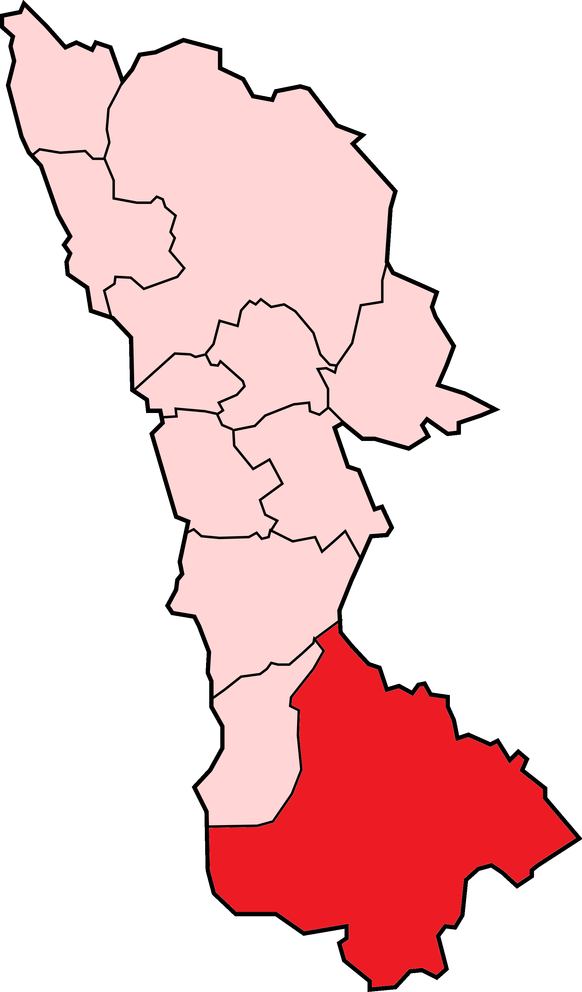 The unparished part of the borough of Broxtowe shown (red) with the parishes of that borough.